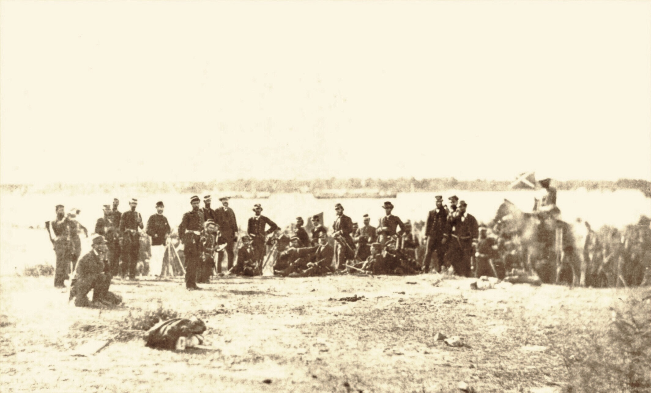 Brazilian navy and army men during the siege of Paysandu, 1865